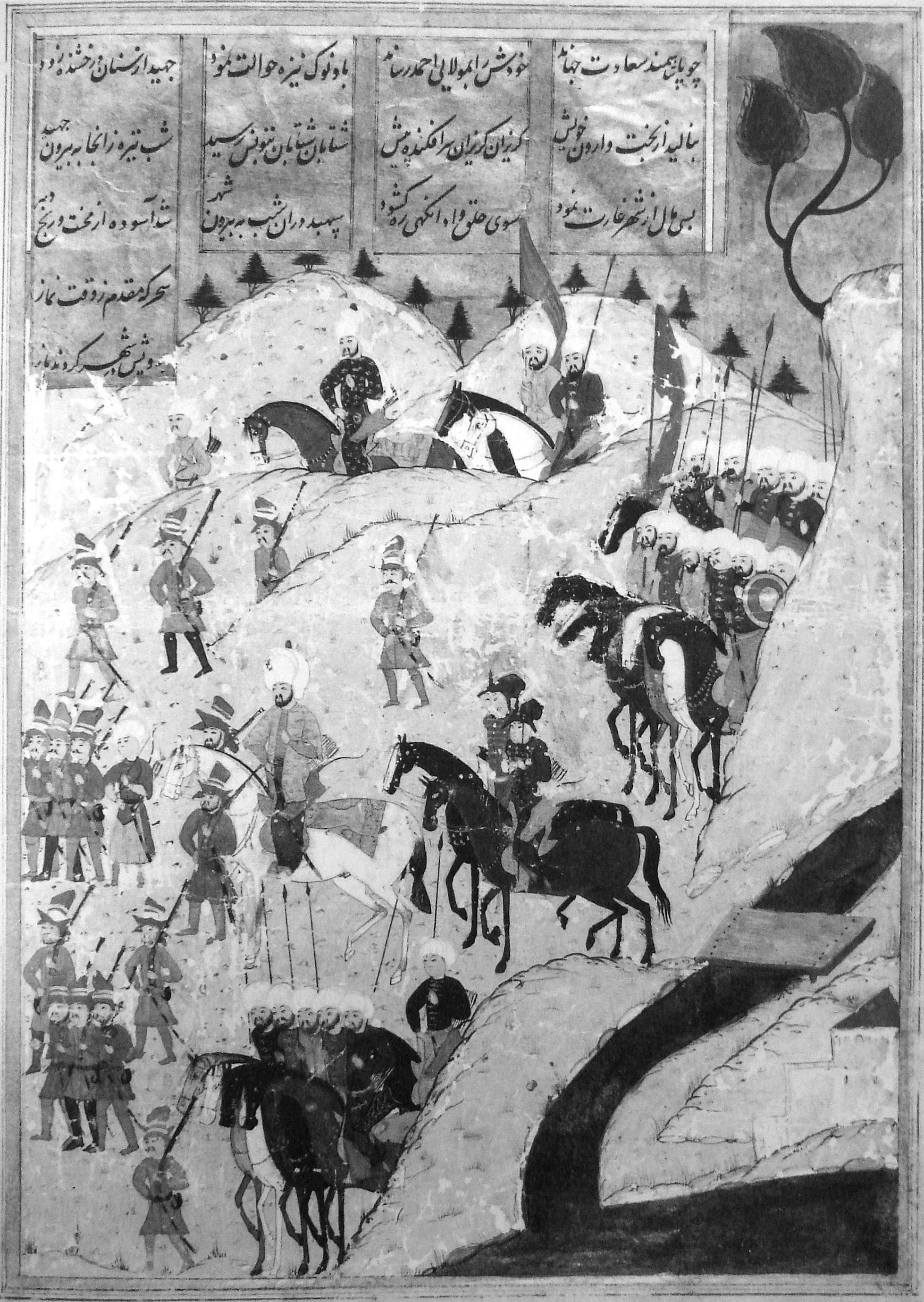 Ottoman_troops_marching_on_Tunis_in_1569